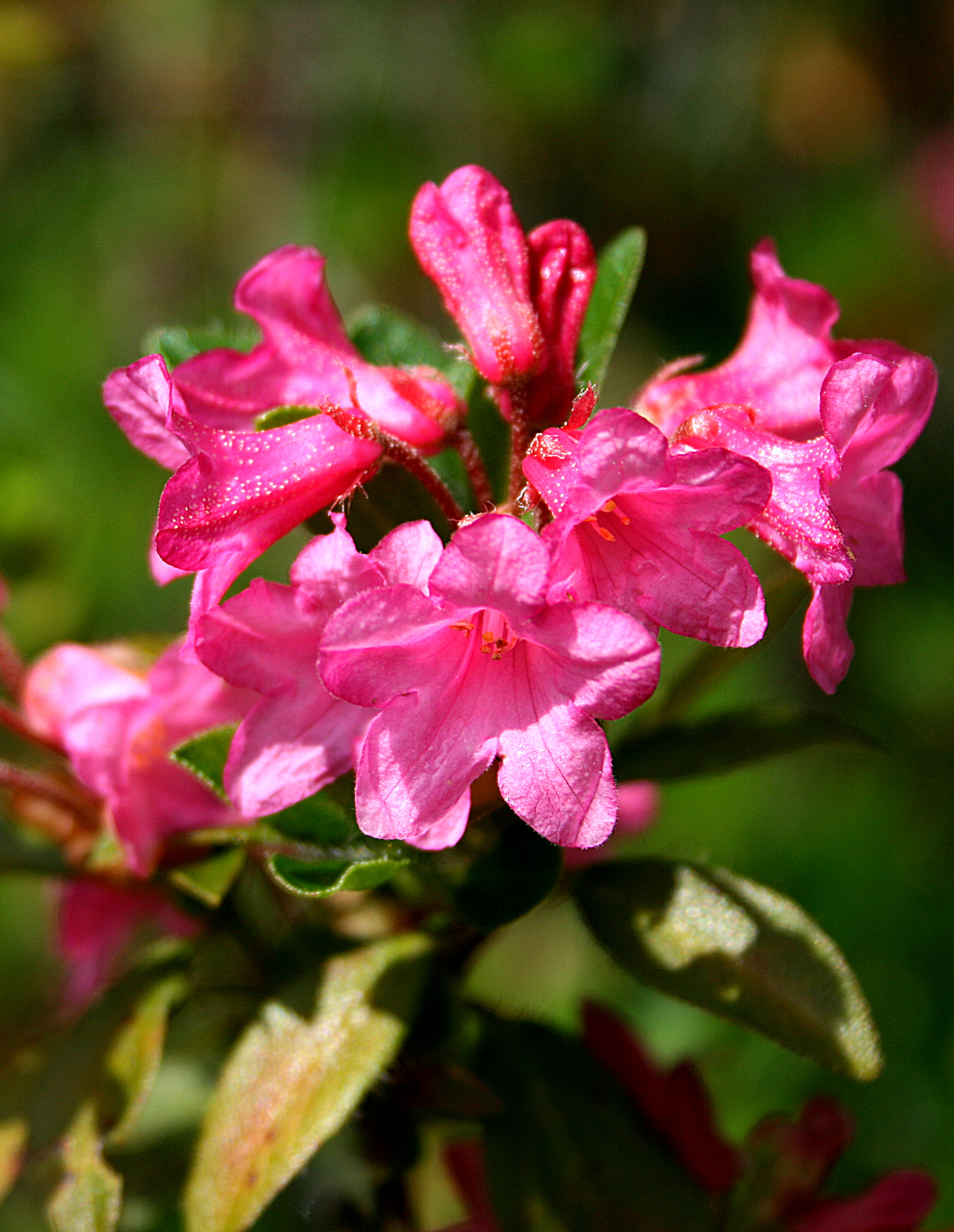 Hairy Alpenrose